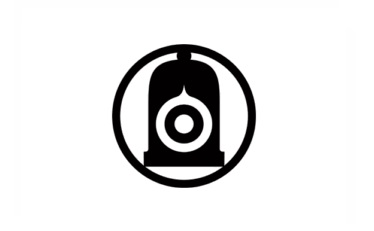 Flag of Shiroishi Miyagi